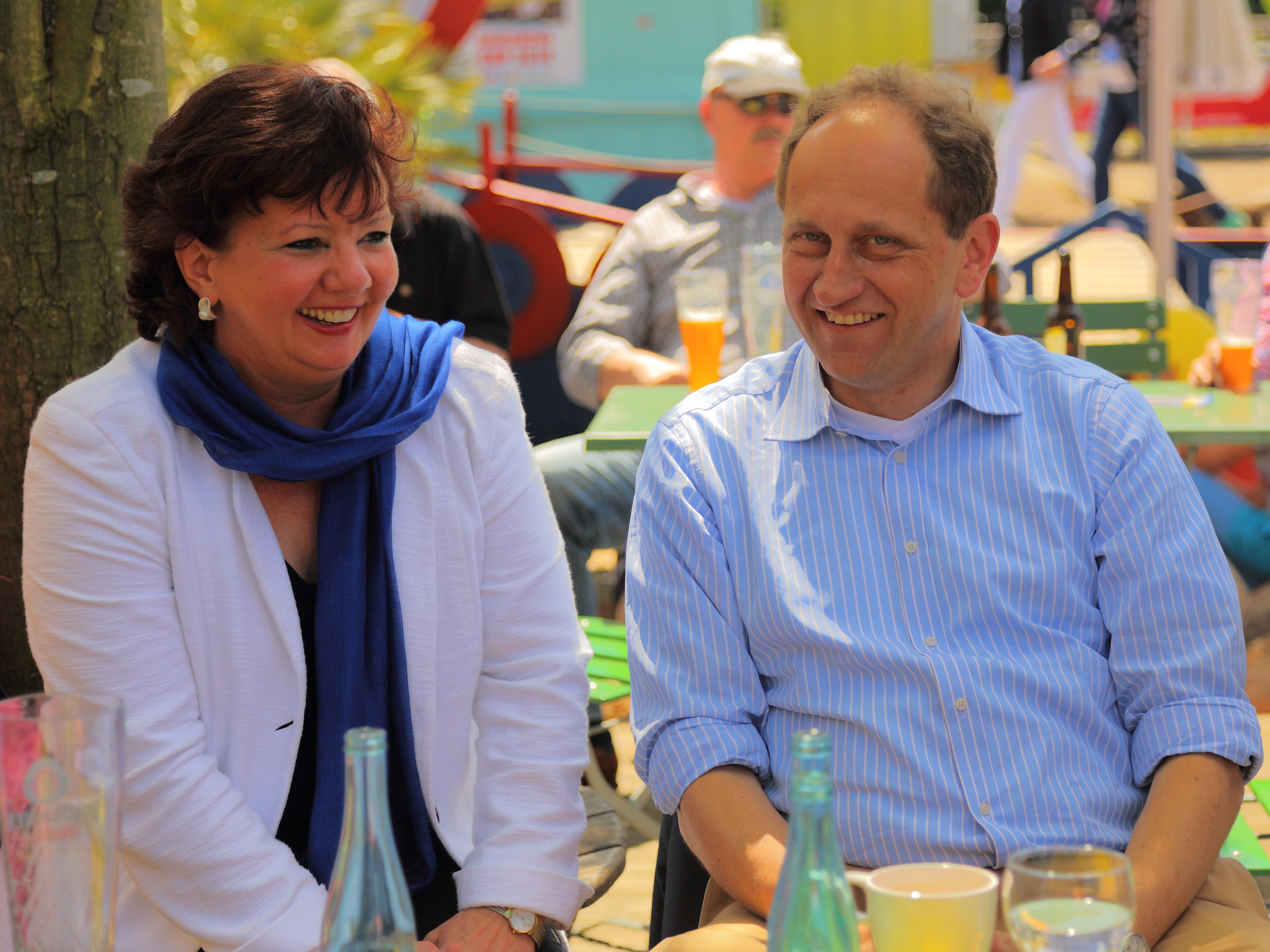 The FDP politicians Claudia Bögel-Hoyer and Alexander Graf Lambsdorff at the FDP-Kreisfete 2014 in Ibbenbüren, Kreis Steinfurt, North Rhine-Westphalia, Germany.